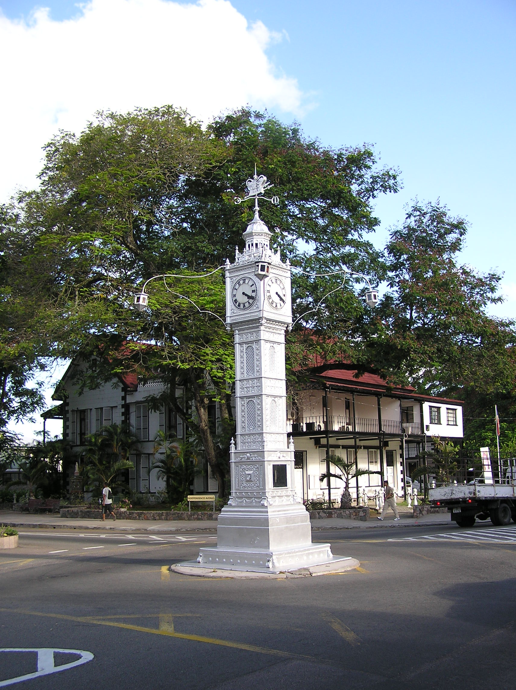 The Clock Tower, a landmark in Victoria, Seychelles.